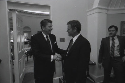 President Ronald Reagan (9-11) Meeting to discuss Federalism with a group of Republican Mayors President Ronald Reagan, Margaret Hance, Donna Owens, William Hudnut, James Inhofe, Jayne Plank, Joan Specter, James Ryan, Richard Berkley, Herman Padilla, Voinovich, Sylvester, Mercer, Barnes, Johnson, Carver, Kramer, Ryan, Cianci, Thomas, Duci, and Williamson (13) Meeting to discuss Federalism with a group of Republican Mayors President Ronald Reagan and James Inhofe (4-8) Meeting to discuss Federalism with a group of Republican Mayors President Ronald Reagan, Margaret Hance, Donna Owens, William Hudnut, James Inhofe, Jayne Plank, Joan Specter, James Ryan, Richard Berkley, Herman Padilla, Voinovich, Sylvester, Mercer, Barnes, Johnson, Carver, Kramer, Ryan, Cianci, Thomas, Duci, and Williamson (14-33) Meeting to discuss Federalism with a group of Republican Mayors